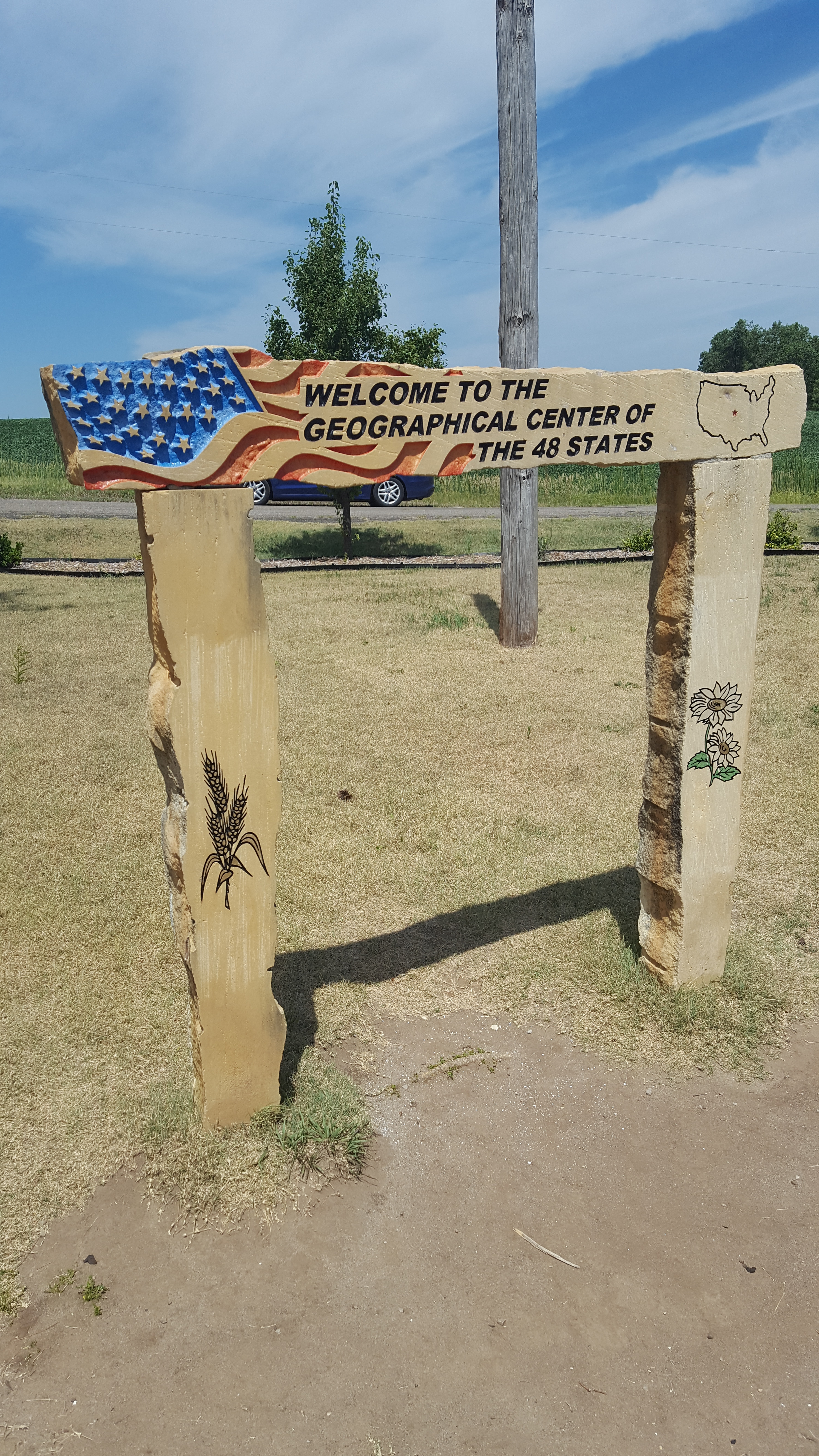 Monument at the Geographical Center Of The US 48 contiguous States